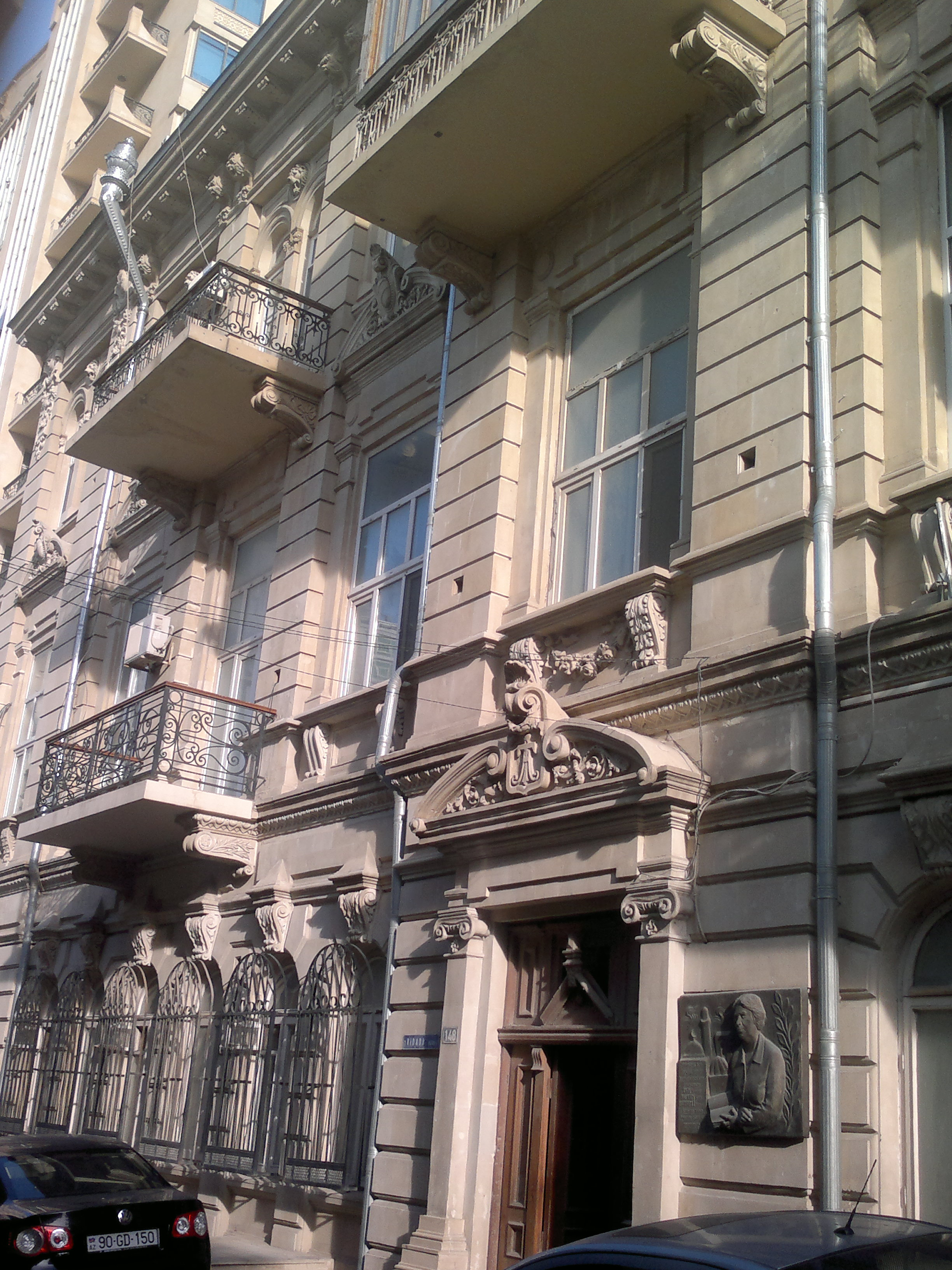 Building on 148 Vidadi Street in Baku. Azerbaijani historian Sara Ashurbeyli lived here.